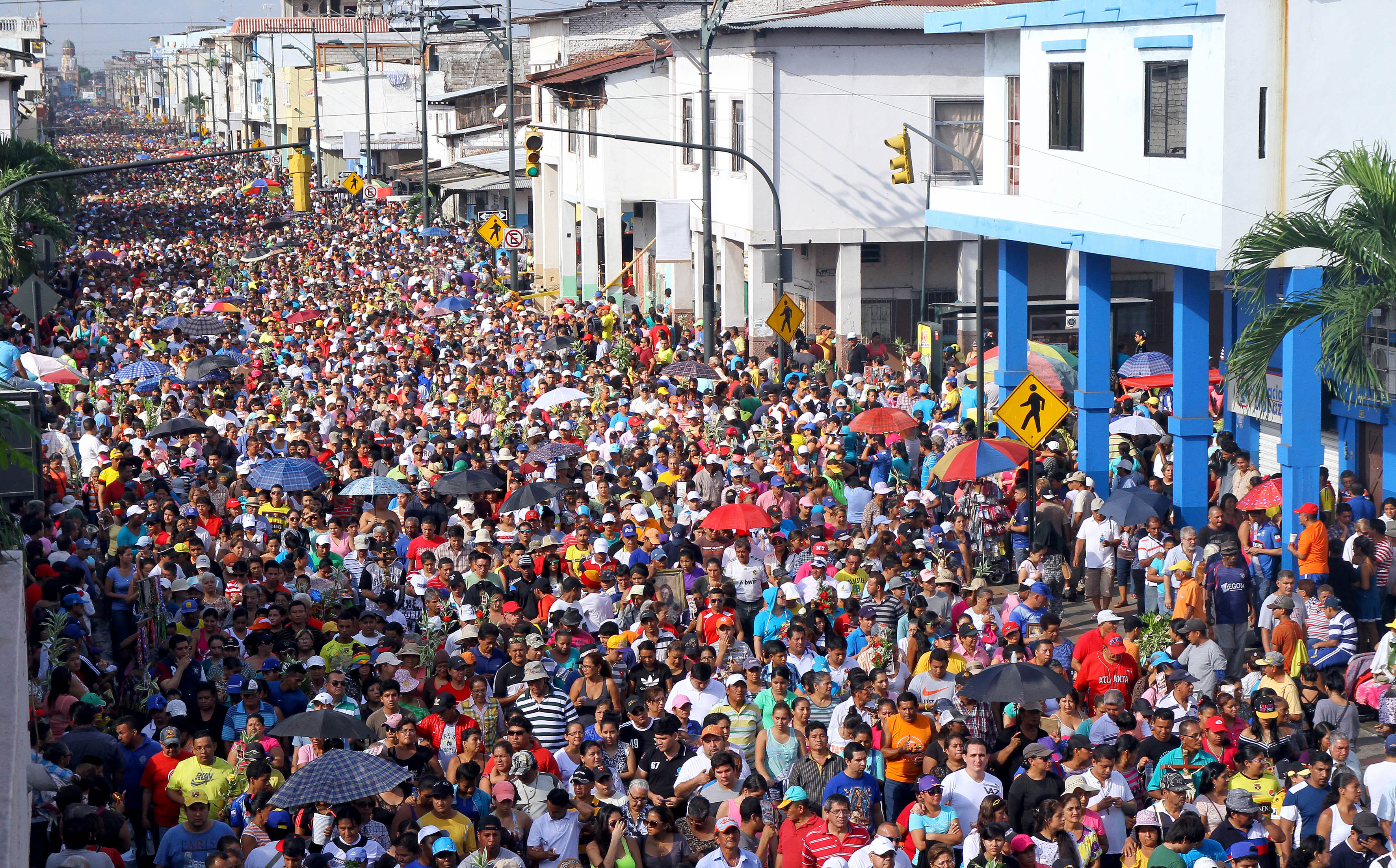 Guayaquil, viernes 03 de abril del 2015 (ANDES).-Miles de feligreses acompañaron a la imagen de Cristo en una procesión que recorre desde la iglesia del Cristo del Consuelo hasta llegar a la iglesia Espiritu Santo en el sureste de Guayaquil.Foto:César Muñoz/ANDES